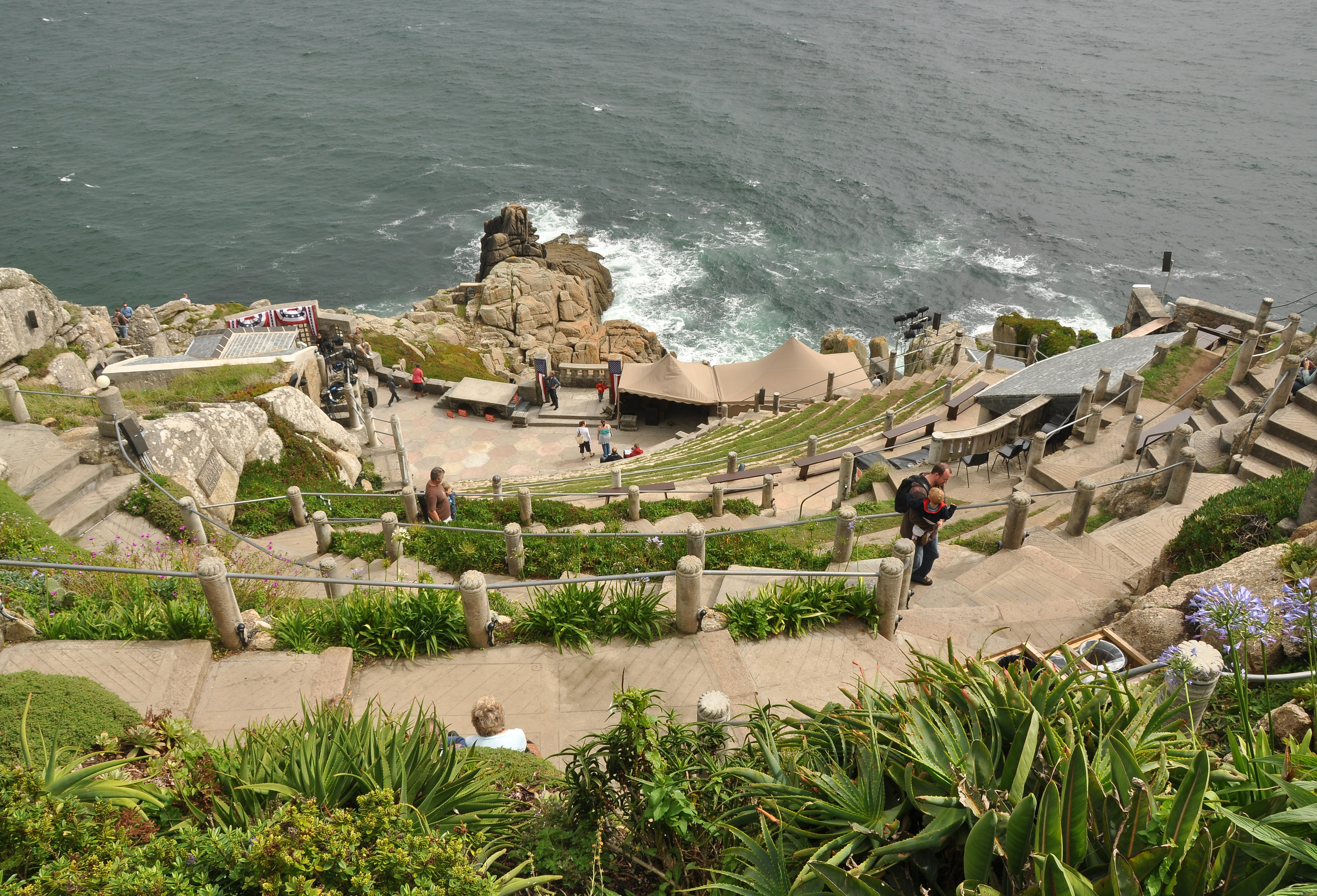 The Minack Theatre at Porthcurno, Cornwall.